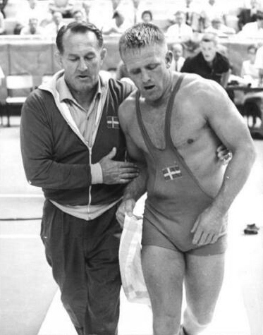 Olympic wrestlers Rudolf "Preven" Svedberg & Bertil Nystrom - Vintage photograph